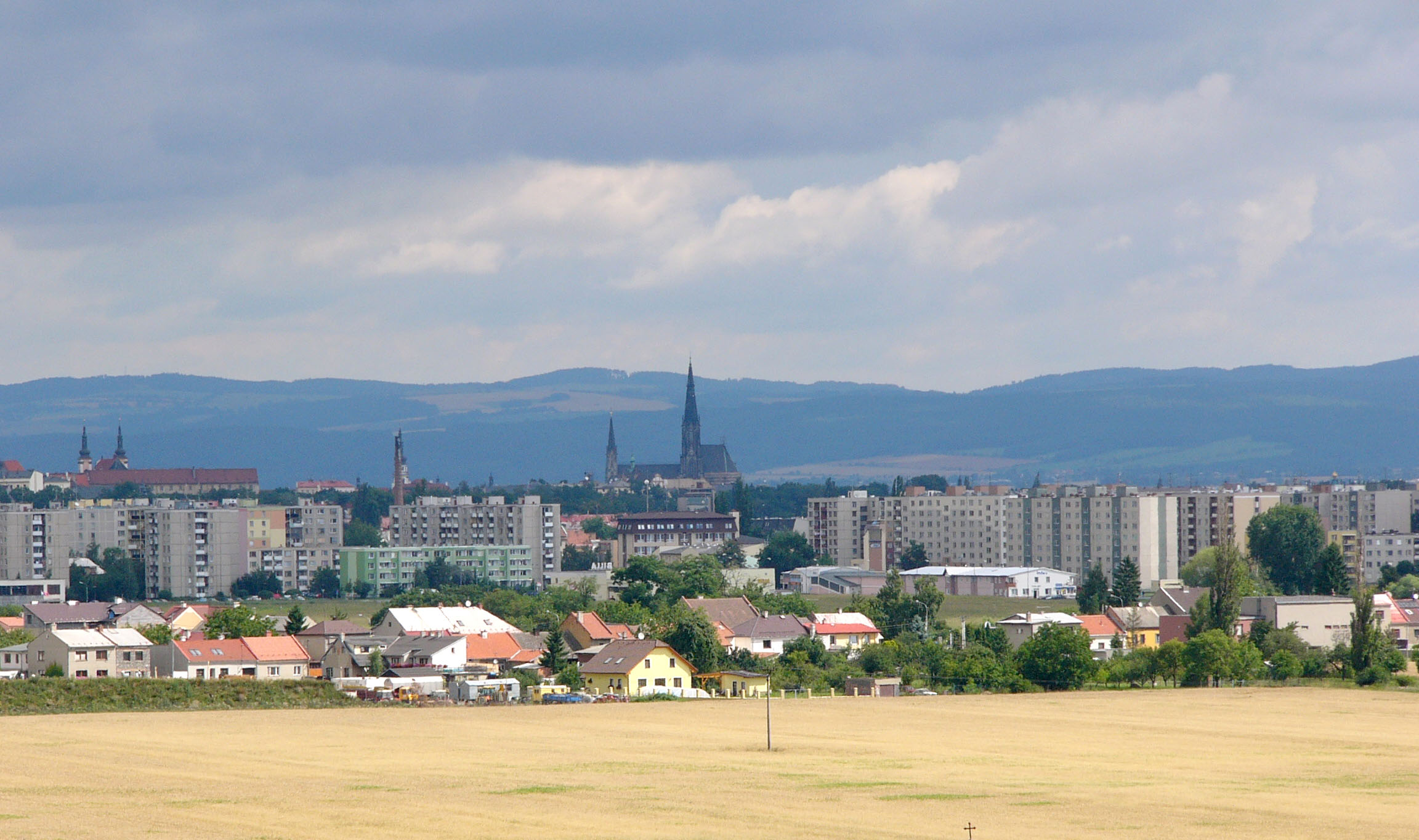 Panorama of Olomouc city (Czech Republic) from southwest .